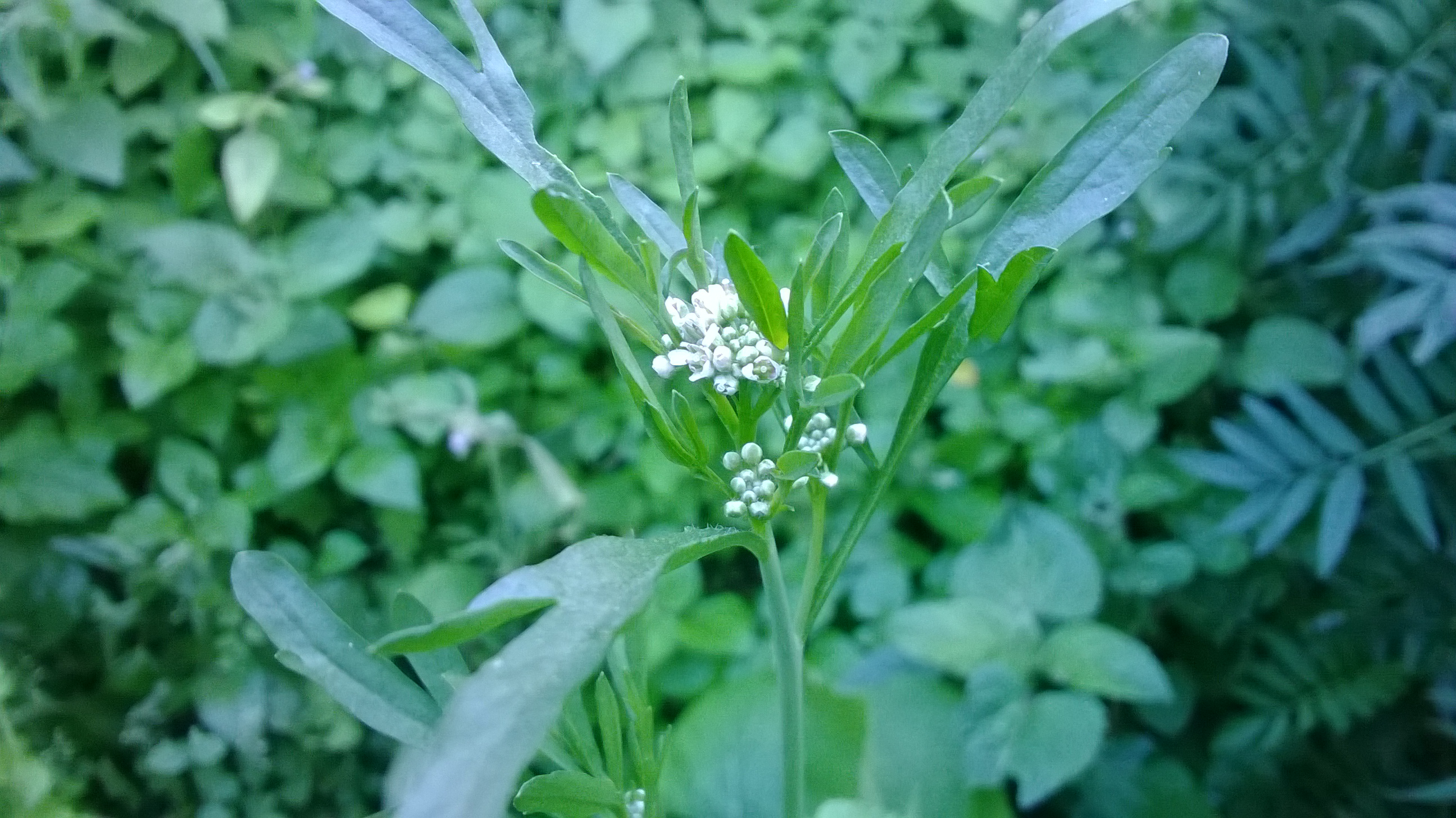 Inflorescence of Lepidiumus sativum.